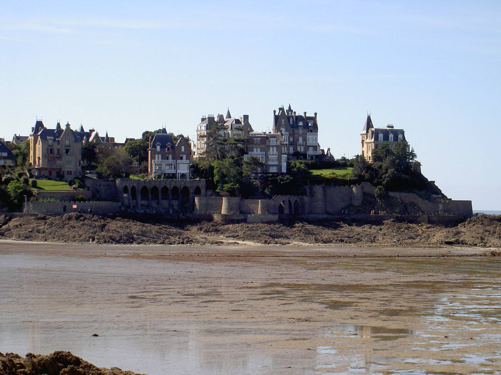 Villas on the beach at Dinard